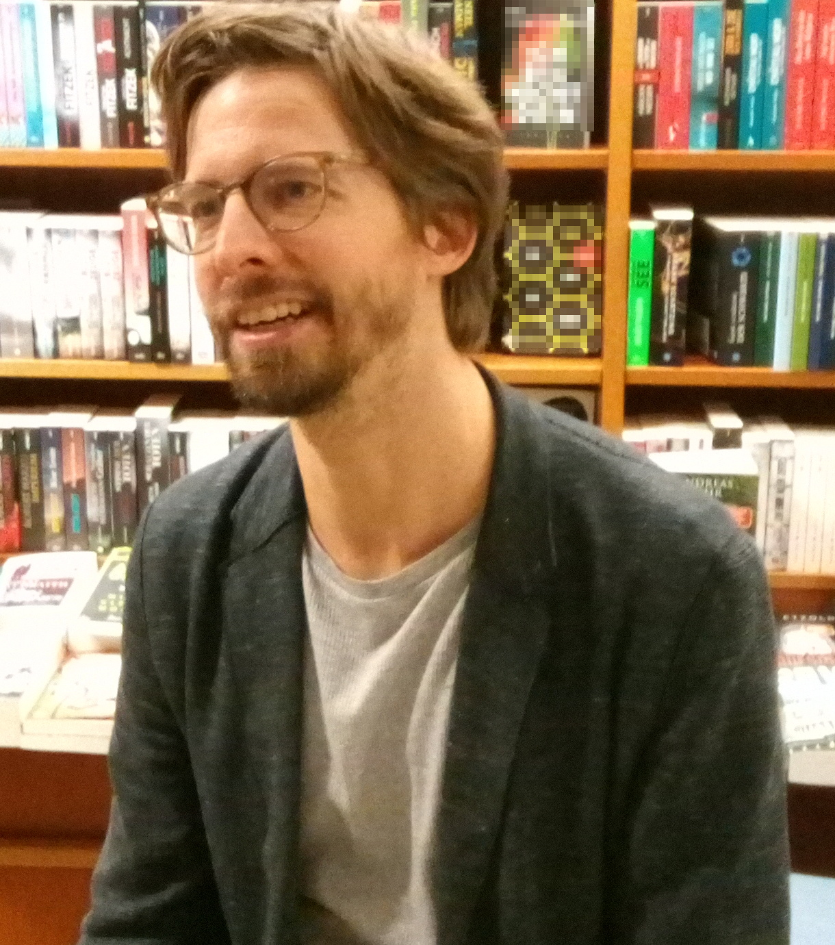 Stephan Orth, Marburg, Germany check usage